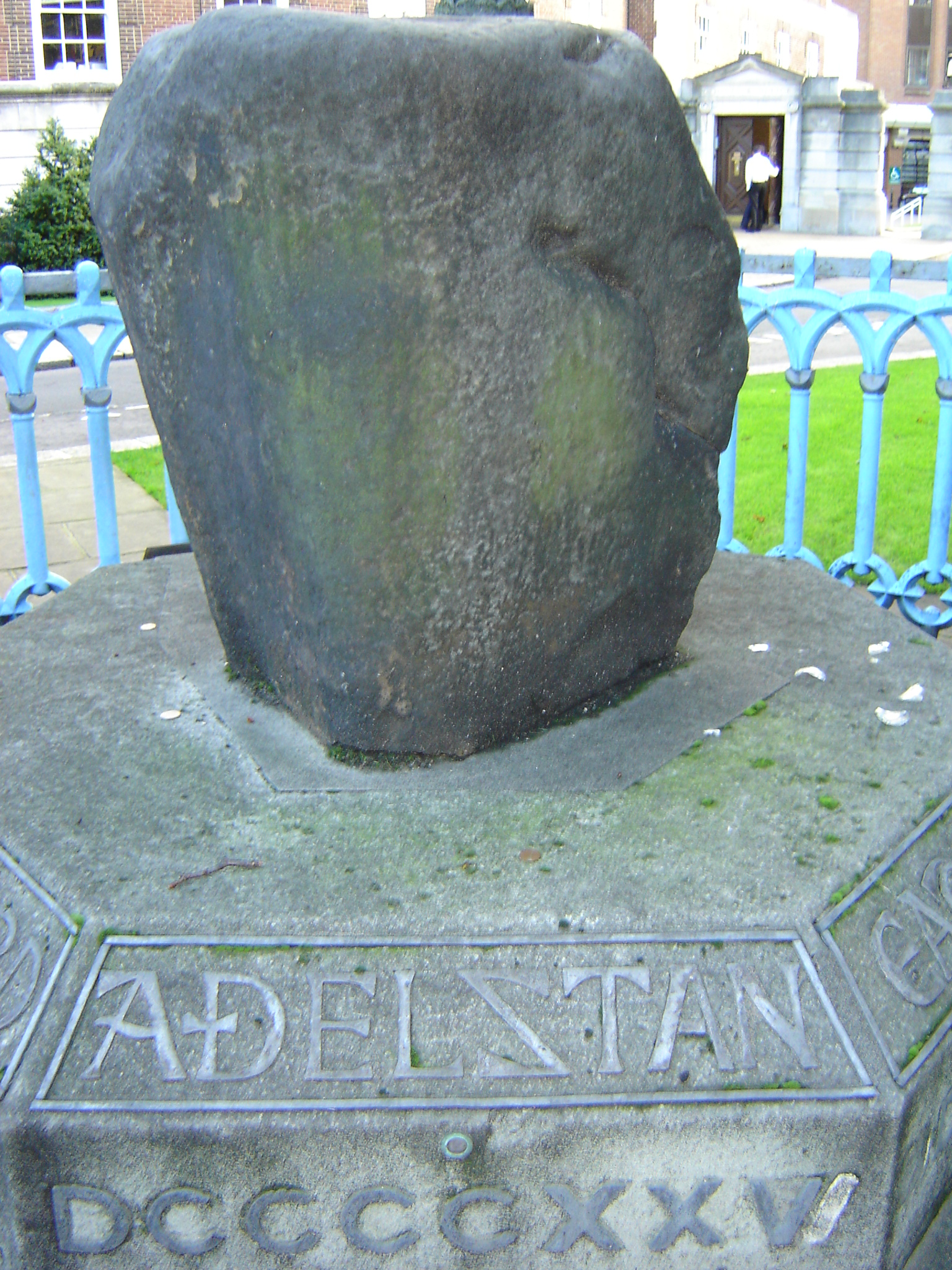 Stone found in the ruins of a chapel in Kingston Upon Thames in the eighteenth century, which has since then been regarded as the Coronation Stone of the Saxon Kings of England. It was at first used as a mounting block, but in 1850 it was moved to the market place and put on a plinth with the names of seven kings crowned in Kingston. This photograph shows the name of Athelstan.